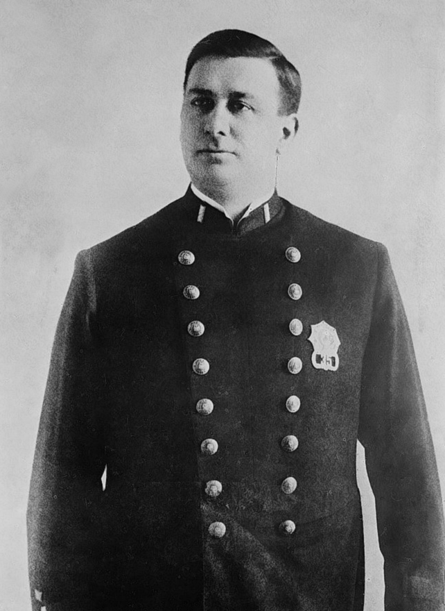 Police Lt. Charles Becker circa 1912 - N.Y. (LOC) Bain News Service,, publisher. Police Lt. Chas. Becker - N.Y. [between ca. 1910 and ca. 1915] 1 negative : glass ; 5 x 7 in. or smaller. Notes: Title from unverified data provided by the Bain News Service on the negatives or caption cards. Forms part of: George Grantham Bain Collection (Library of Congress). Format: Glass negatives. Repository: Library of Congress, Prints and Photographs Division, Washington, D.C. 20540 USA, General information about the Bain Collection is available at Persistent URL: Call Number: LC-B2- 2741-8